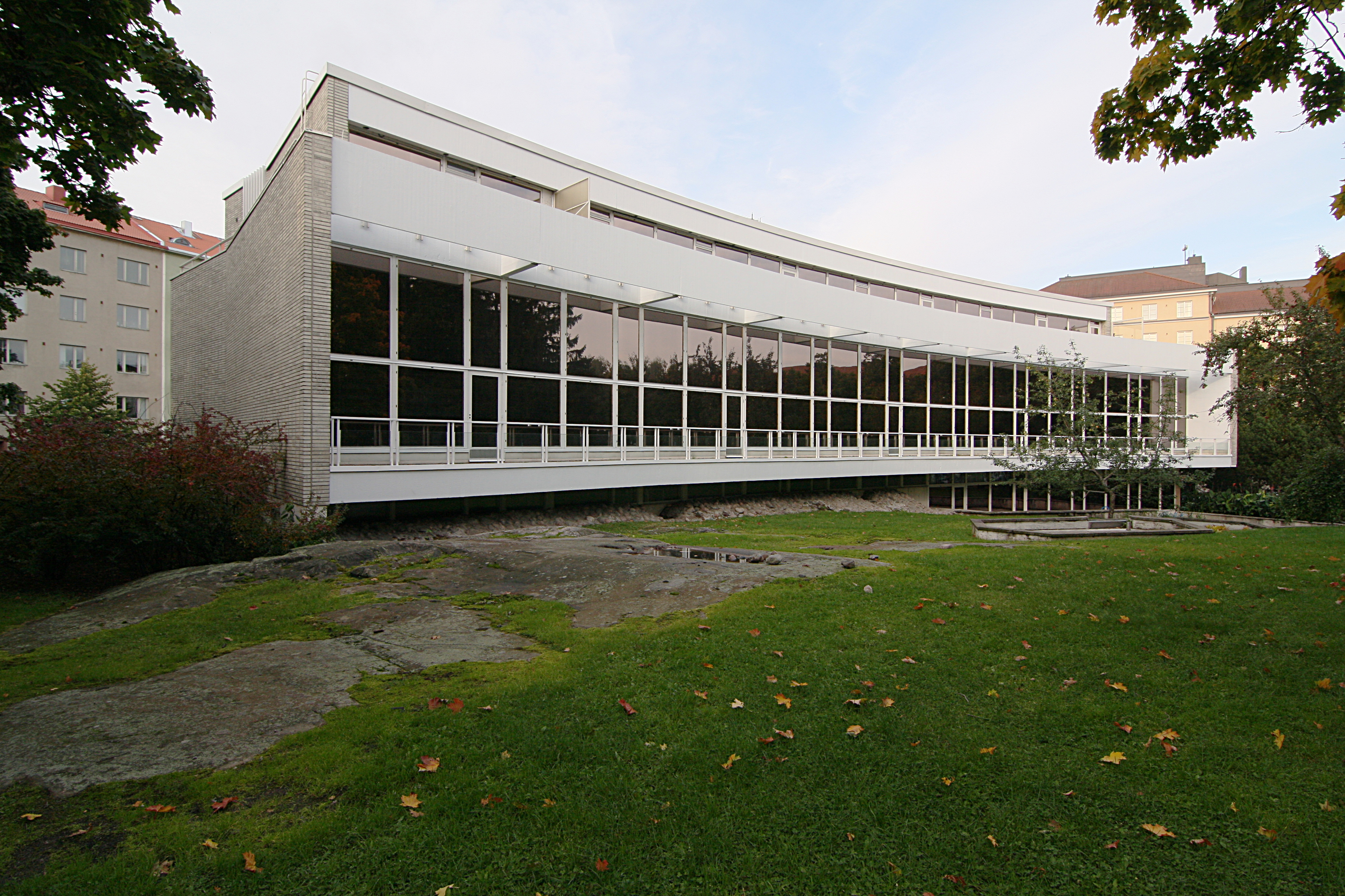 Library of Töölö in Helsinki, Finland. Architect Aarne Ervi.